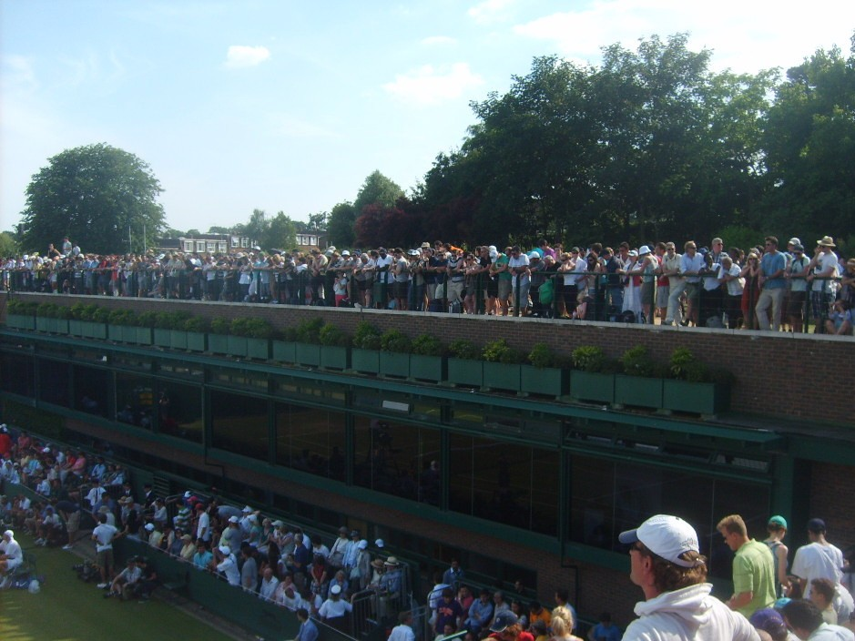 People watching Isner-Mahut match on court 18, Wimbledon 2010.